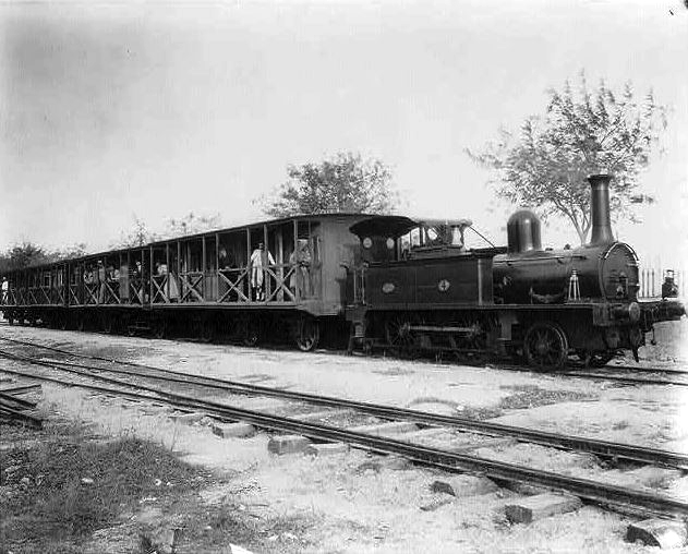 Railway train of the Italian Line between Tunis and the site of ancient Carthage leaving Marsa